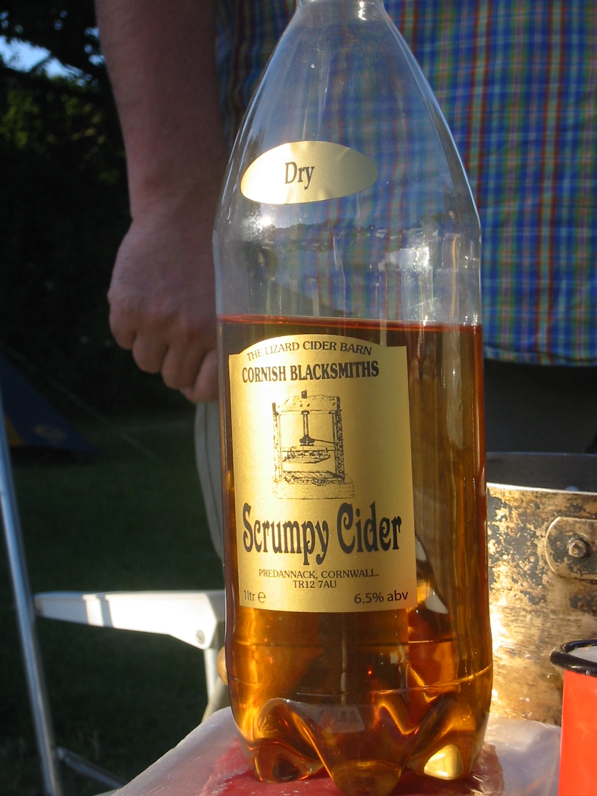 A bottle of commercially produced scrumpy from The Lizard, Cornwall, South West England. Scrumpy produced by The Lizard Cider Barn in Predannack, near the Predannack Airfield in The Lizard, Cornwall, South West England.